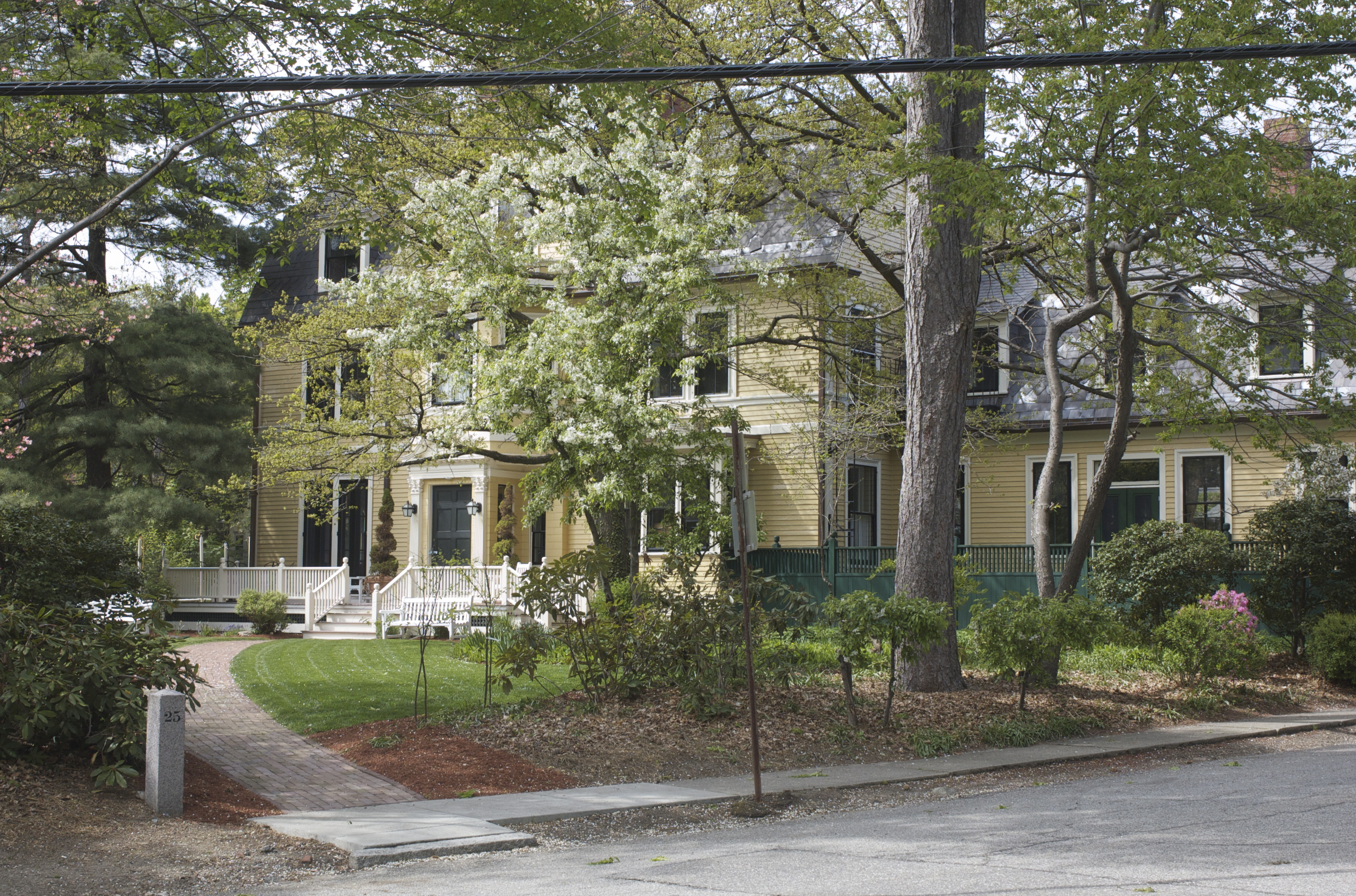 The Hooper-Eliot House at 25 Reservoir Road, Cambridge, Massachusetts. Listed on the National Register of Historic Places.